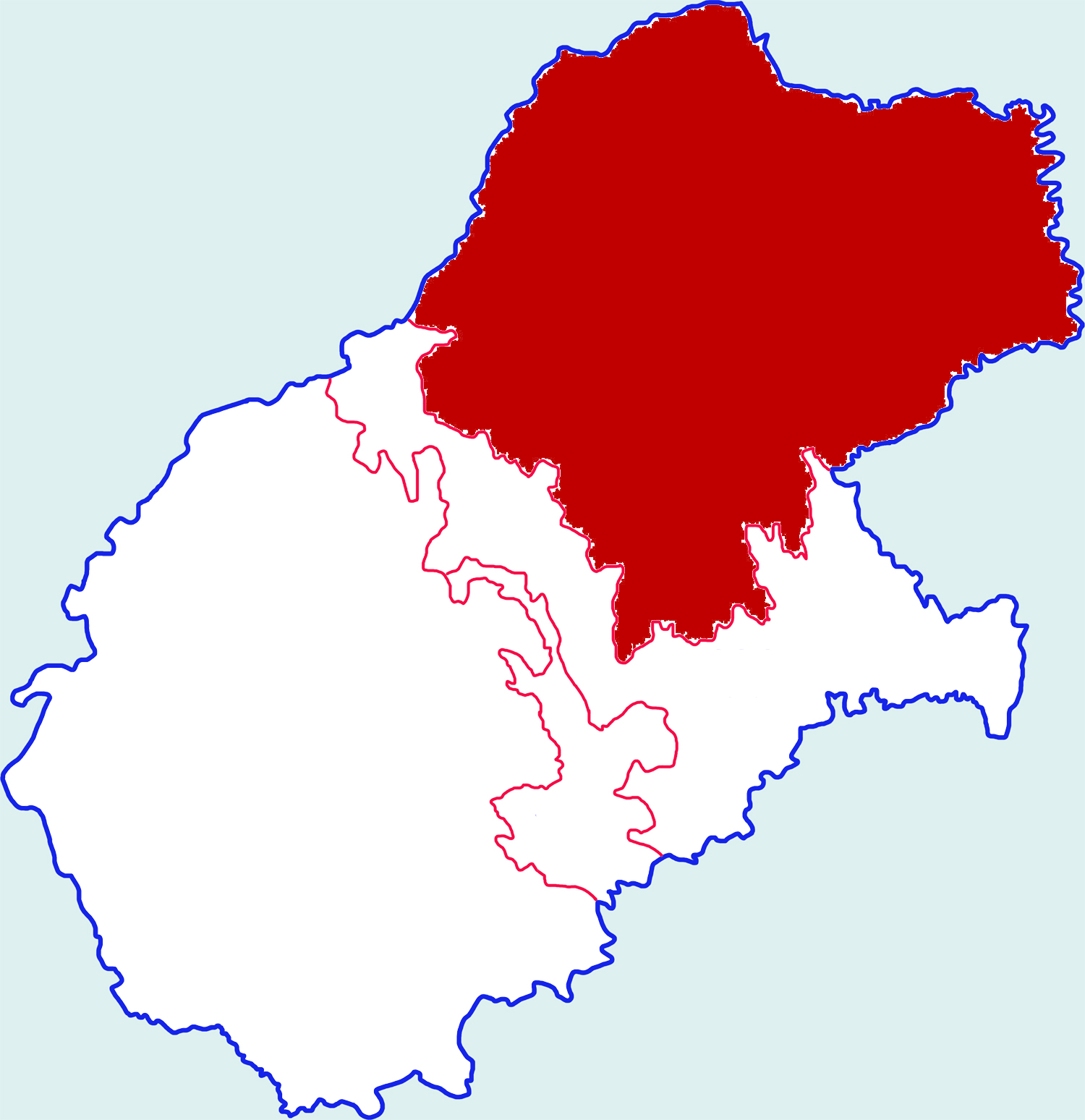 Location of Yijun county in Tongchuan city, China